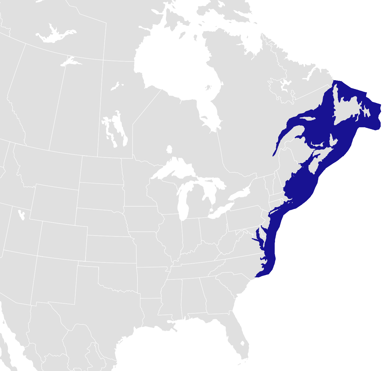 Native distribution of the American Lobster (Homarus americanus)